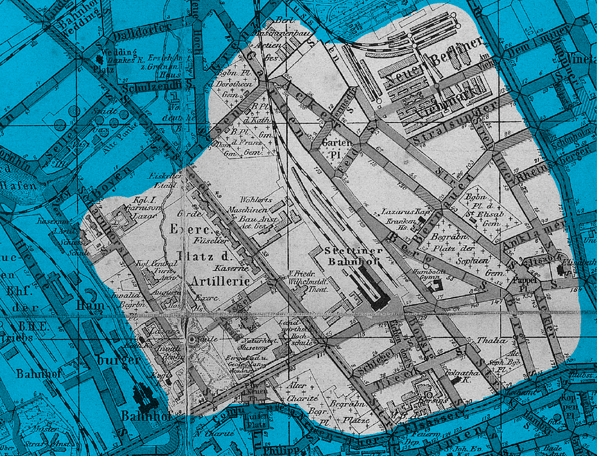 Berlin Map from 1884, taken from "Droschkenwegemesser von Berlin, 1884".